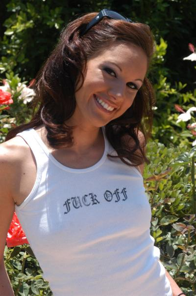 Porn star Taylor Rain, on the set of Defiance Films' Penetration Nation.